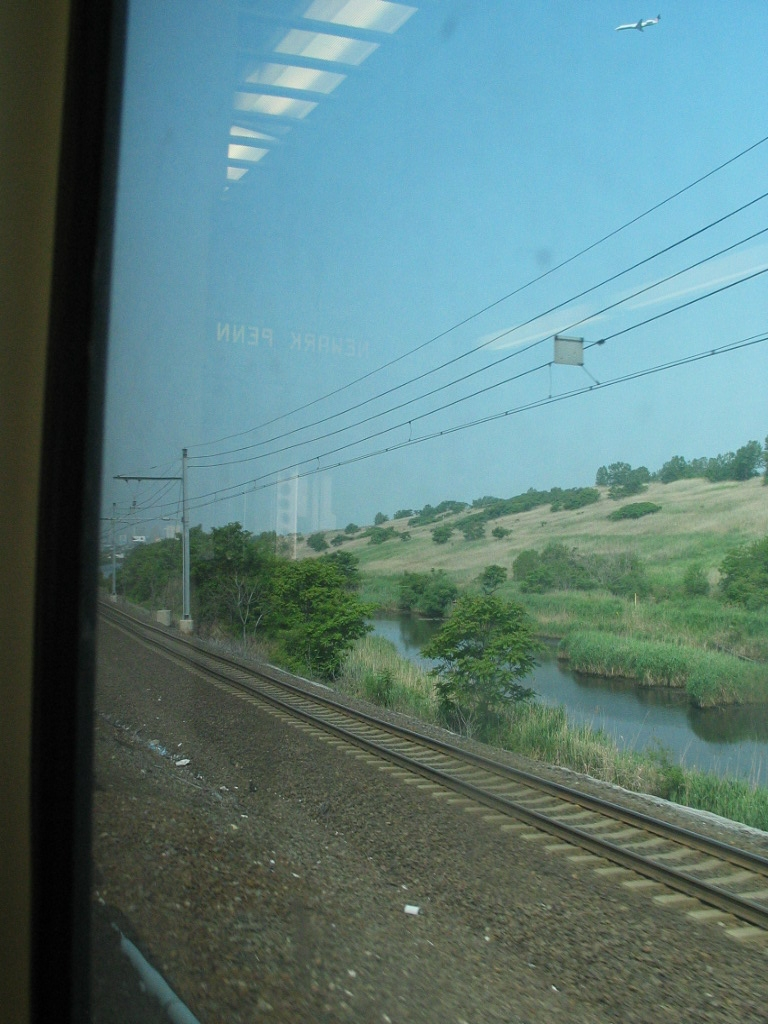 The tracks of the Kearny Connection of NJ Transit. Trains going over this route are labeled as Midtown Direct.